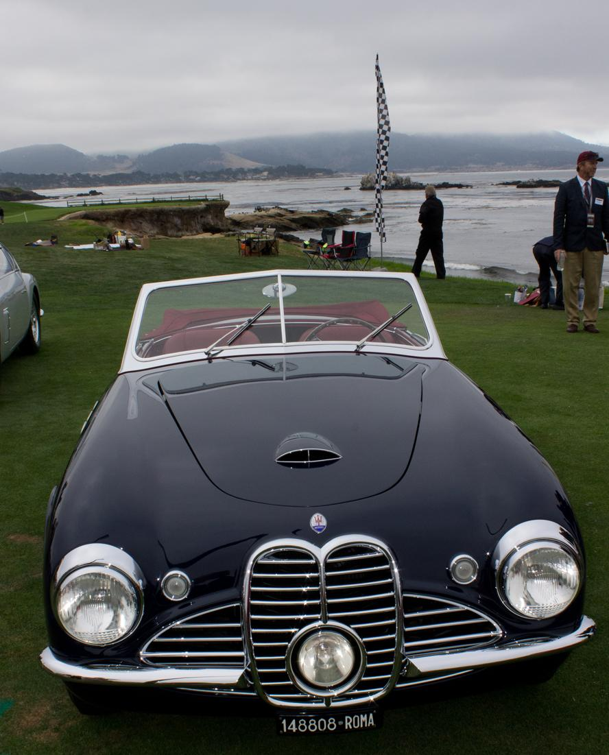 This Maserati A6G 2000 wears Spyder coachwork by Pietro Frua. It was the first Maserati designed by Frua and one of only three to be fitted with a Frua Spyder body. After spending some time in Italy, the car was sold to a California resident in the mid-1950s. A short time later, the Maserati engine was replaced with an American V8. The car was rediscovered in 1997 in the California garage of the late Robert Yorba. It is believed that Yorba purchased the car around 1964; he was a racing enthusiast who participated in SCCA and vintage racing events with his Frua Spyder for 25 years. In 2000 the car was purchased by the current owner, who had it shipped to Modena, Italy, for restoration under the supervision of Maserati historian Dr. Adolfo Orsi. Photograph taken at the 2014 Pebble Beach Concours d'Elegance in Pebble Beach, California.